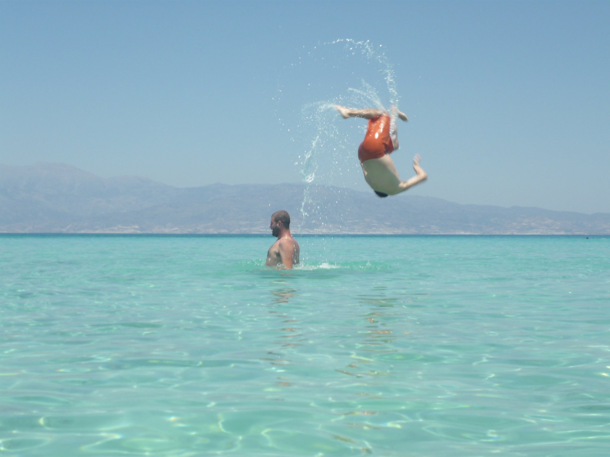 This is a photo of a 360° backflip at a beach located in Chrysi Island (Gaidouronisi) off the southern coast of Crete, Greece.